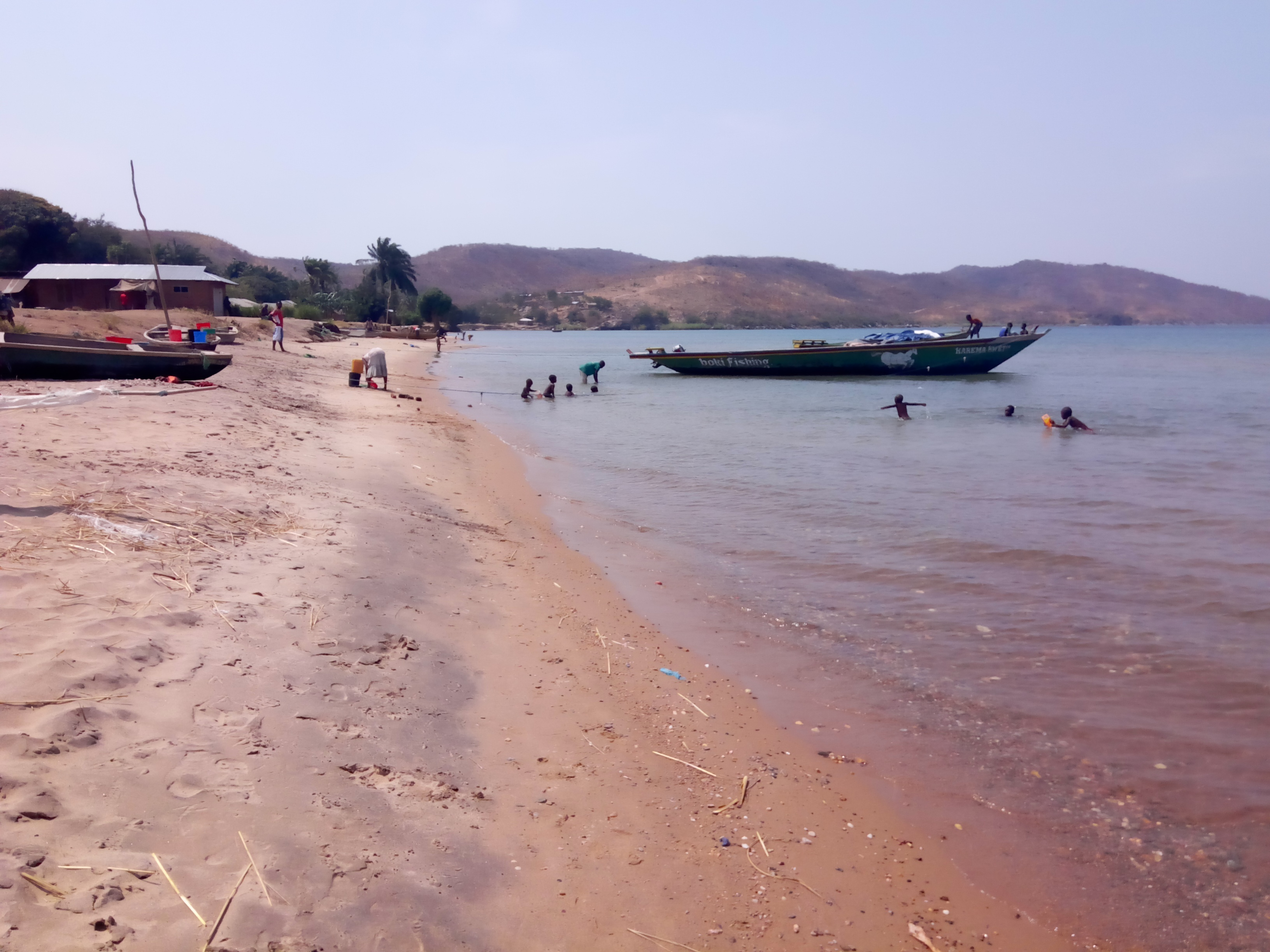 Lake Tanganyika coast in Tanganyika district of Katavi region in Tanzania. This is an image of "African people at work" from Tanzania